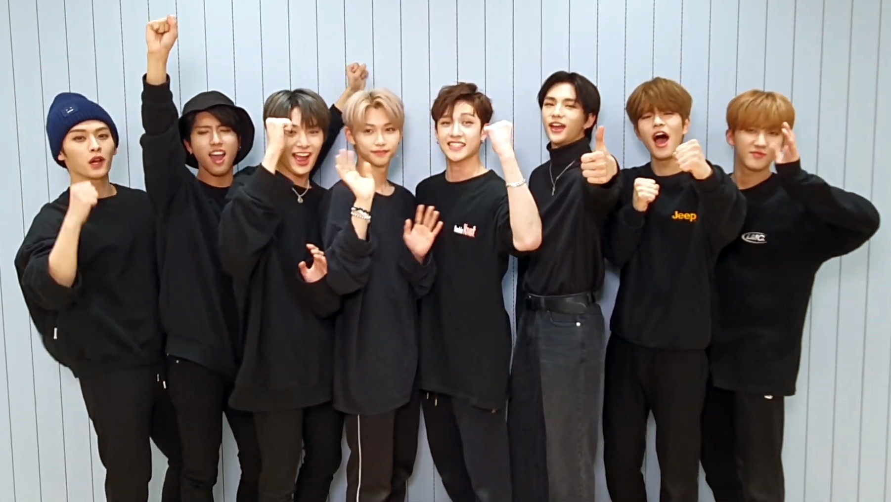 Stray Kids in a promotion for JYP Entertainment's JYP Audition, December 2019